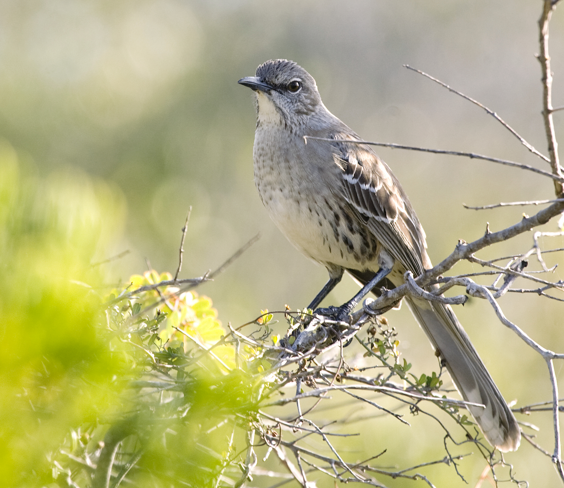 A Bahama Mockingbird in Ciego de Avila Province, Cuba.